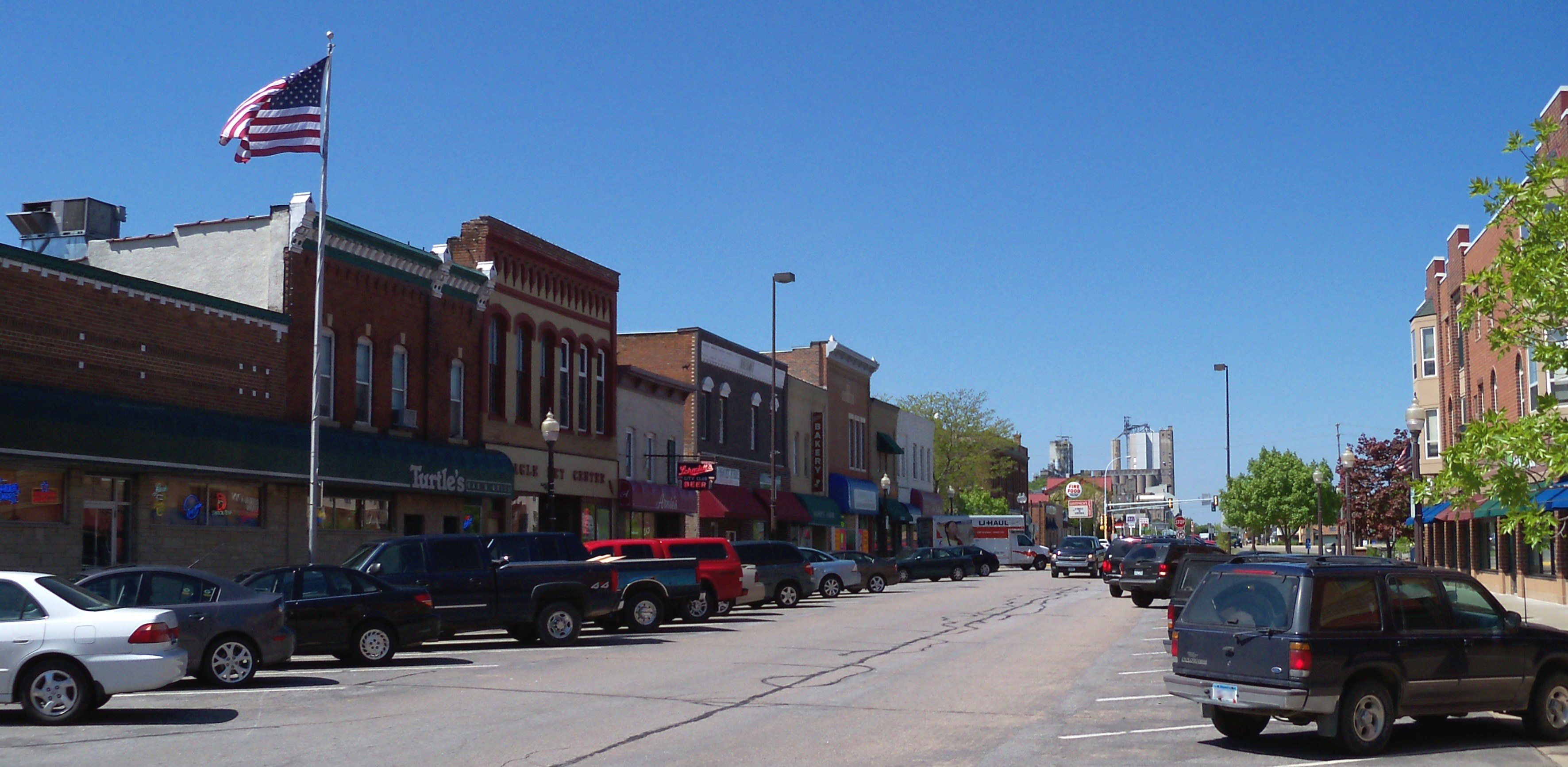 Street in downtown Shakopee, Minnesota, USA.